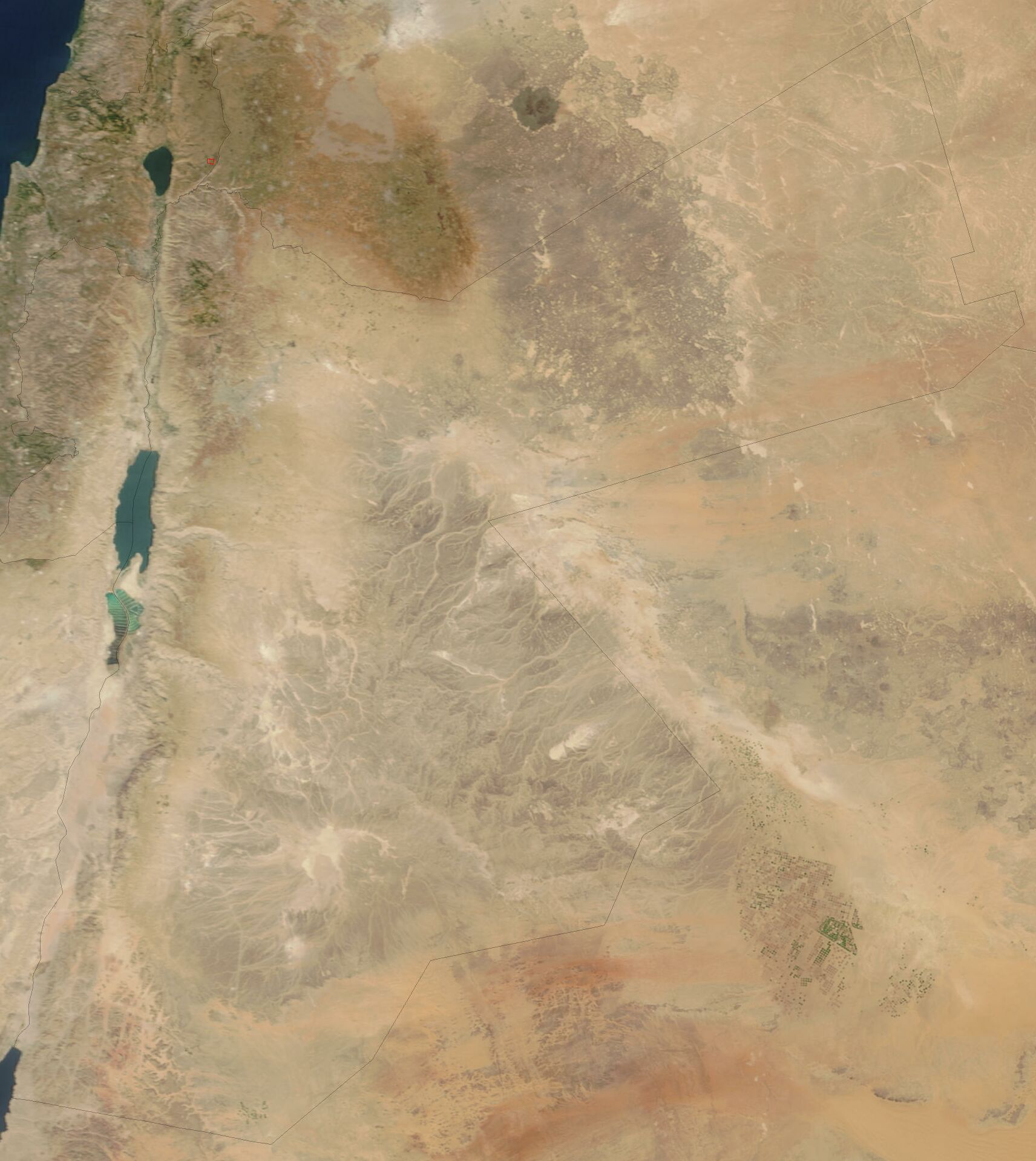 Satellite image of Jordan in November 2003.